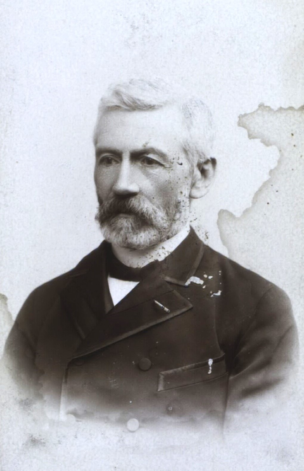 Danish governor of the Faroe Islands, Hannes Kristján Steingrímur Finsen (1828-1892)